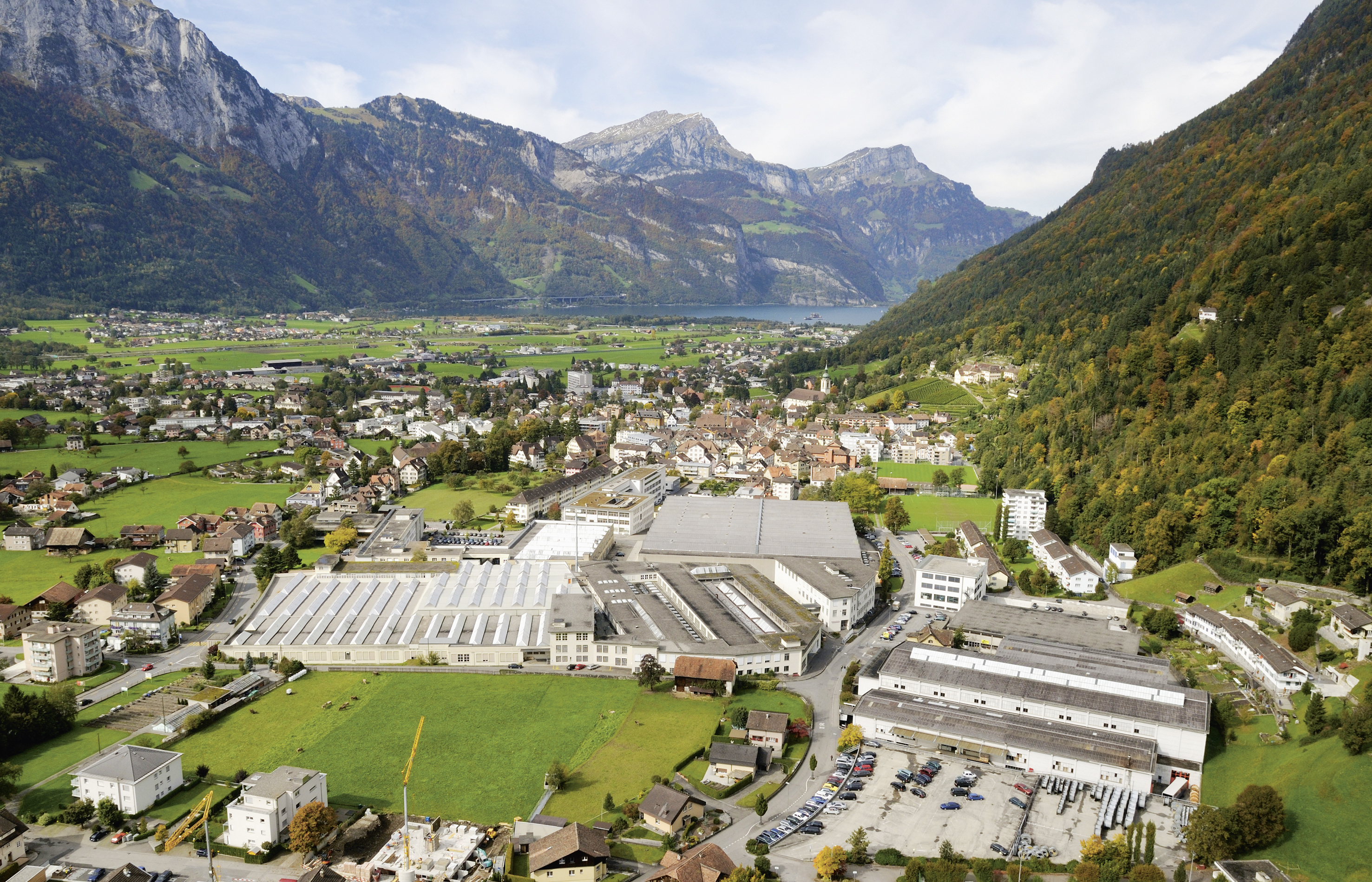 Fabrikgebäude Dätwyler